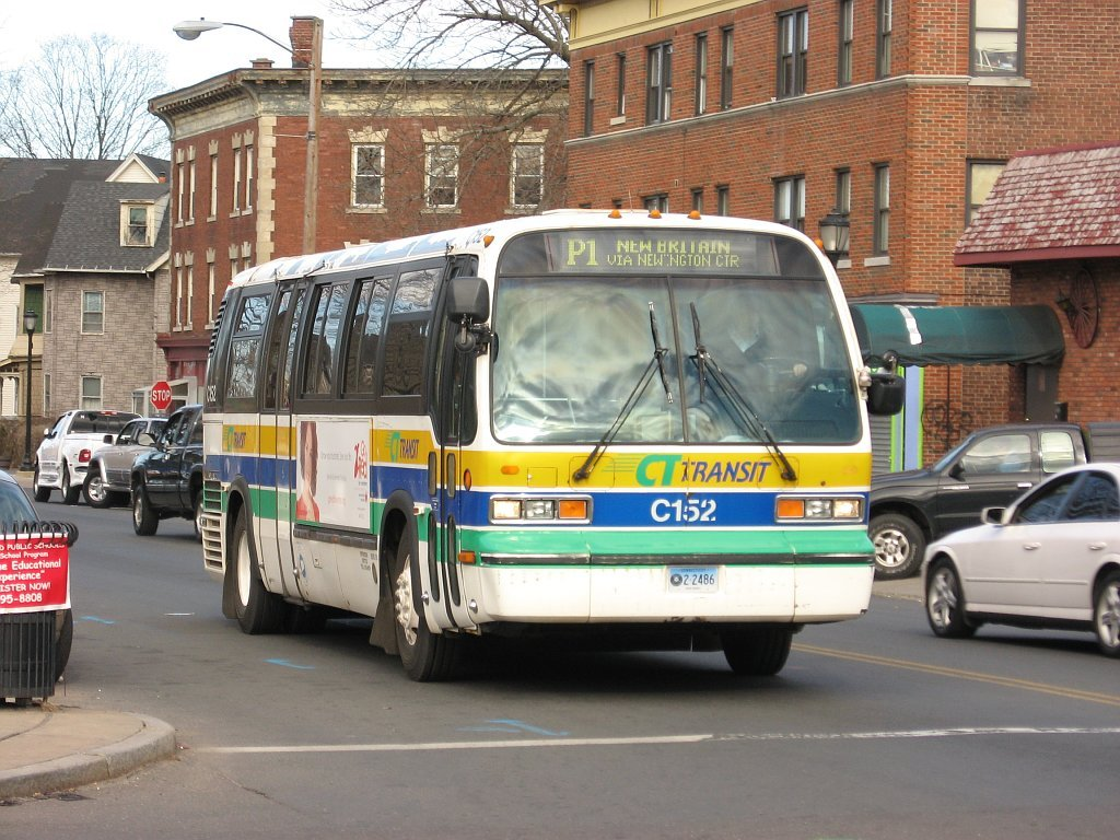 CT Transit New Britain bus C152 on the P1 route in Hartford